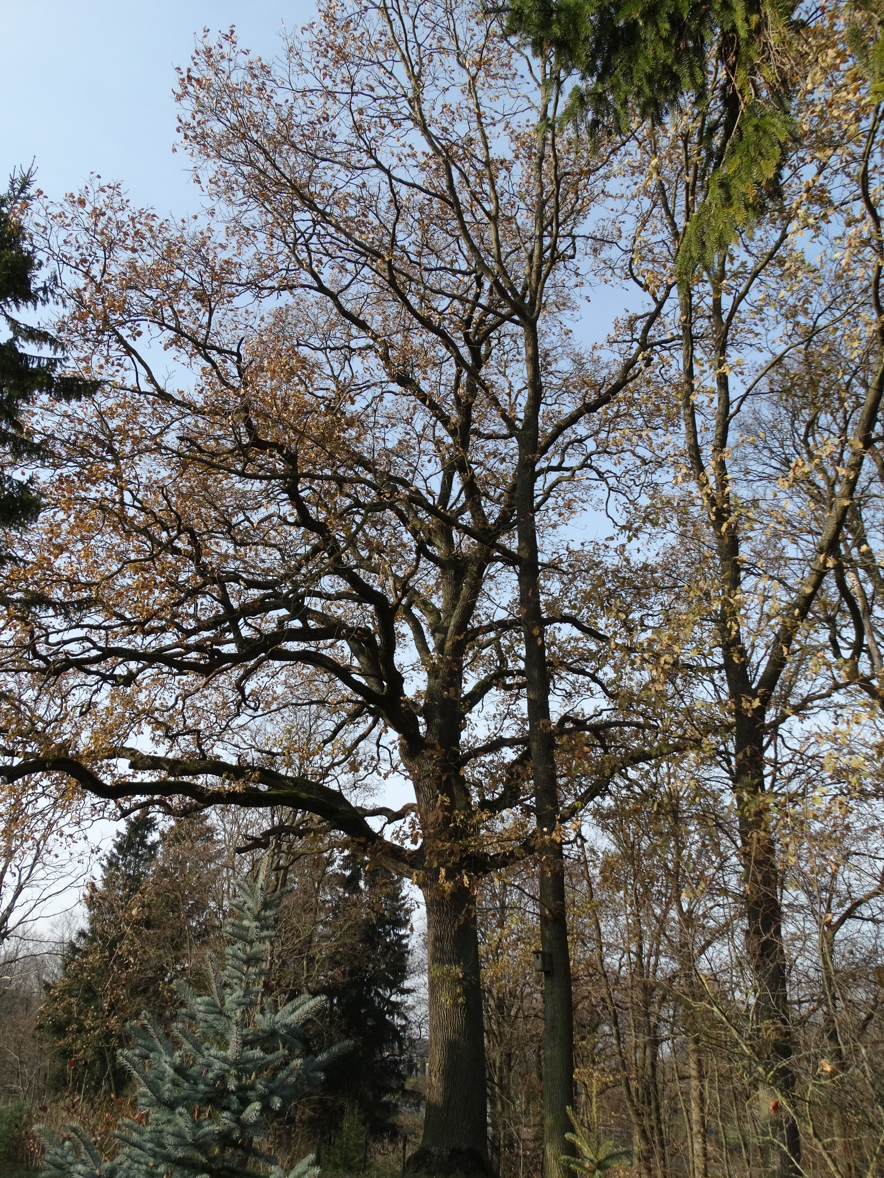 Oak tree, Kiemeliai, Pasvalys District, Lithuania